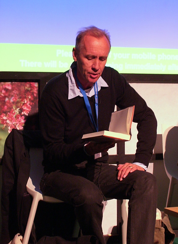 Håkan Nesser reading at the Edinburgh International Book Festival